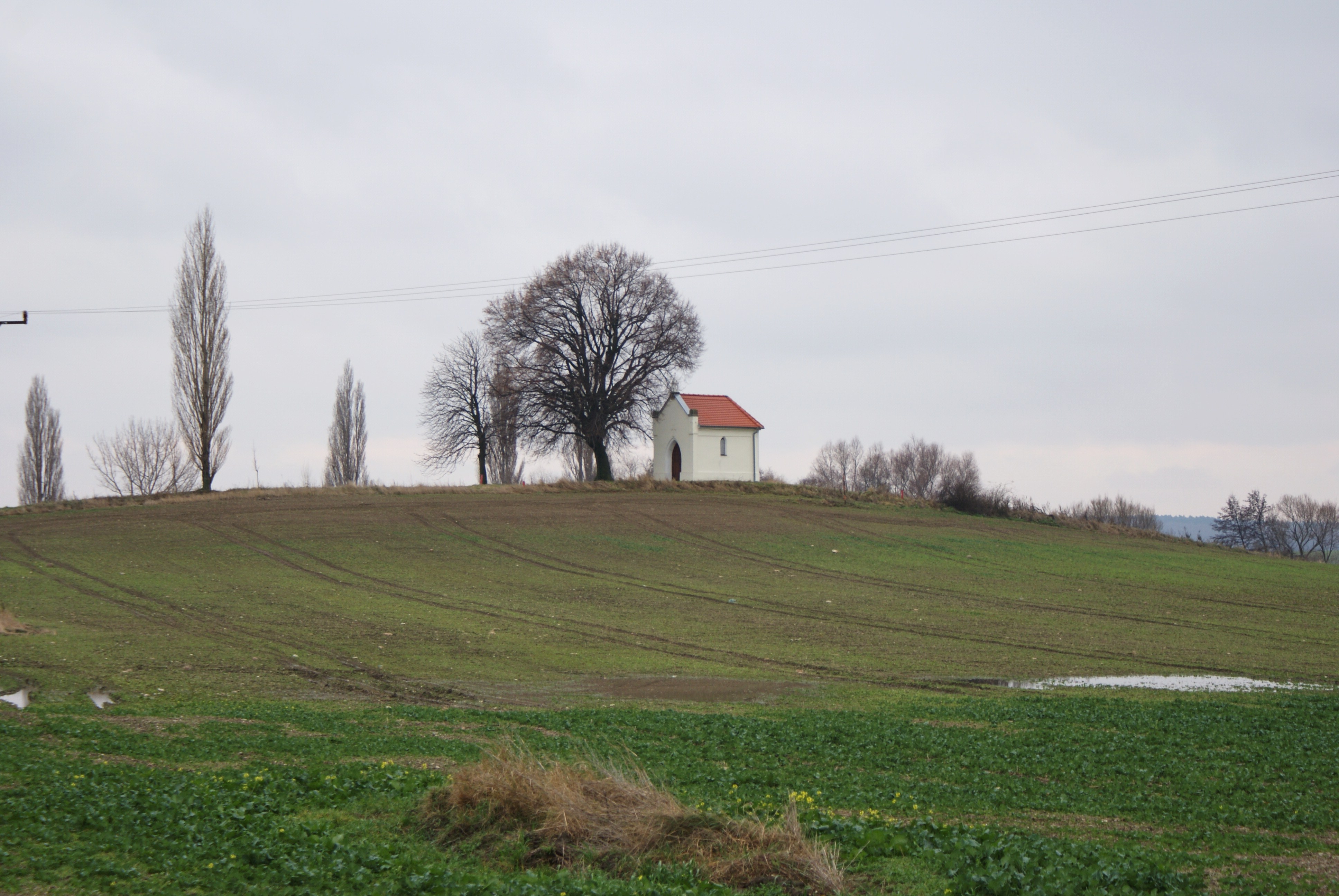 Štefanová, a village in Pezinok district, Slovakia, chapel of St Rosalie seen from a distance.